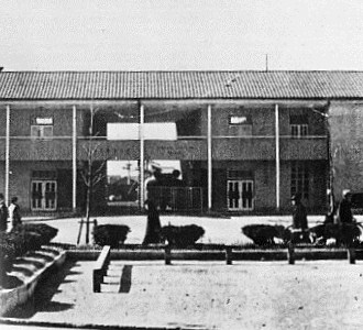 Kawasaki City Municipal Police Building